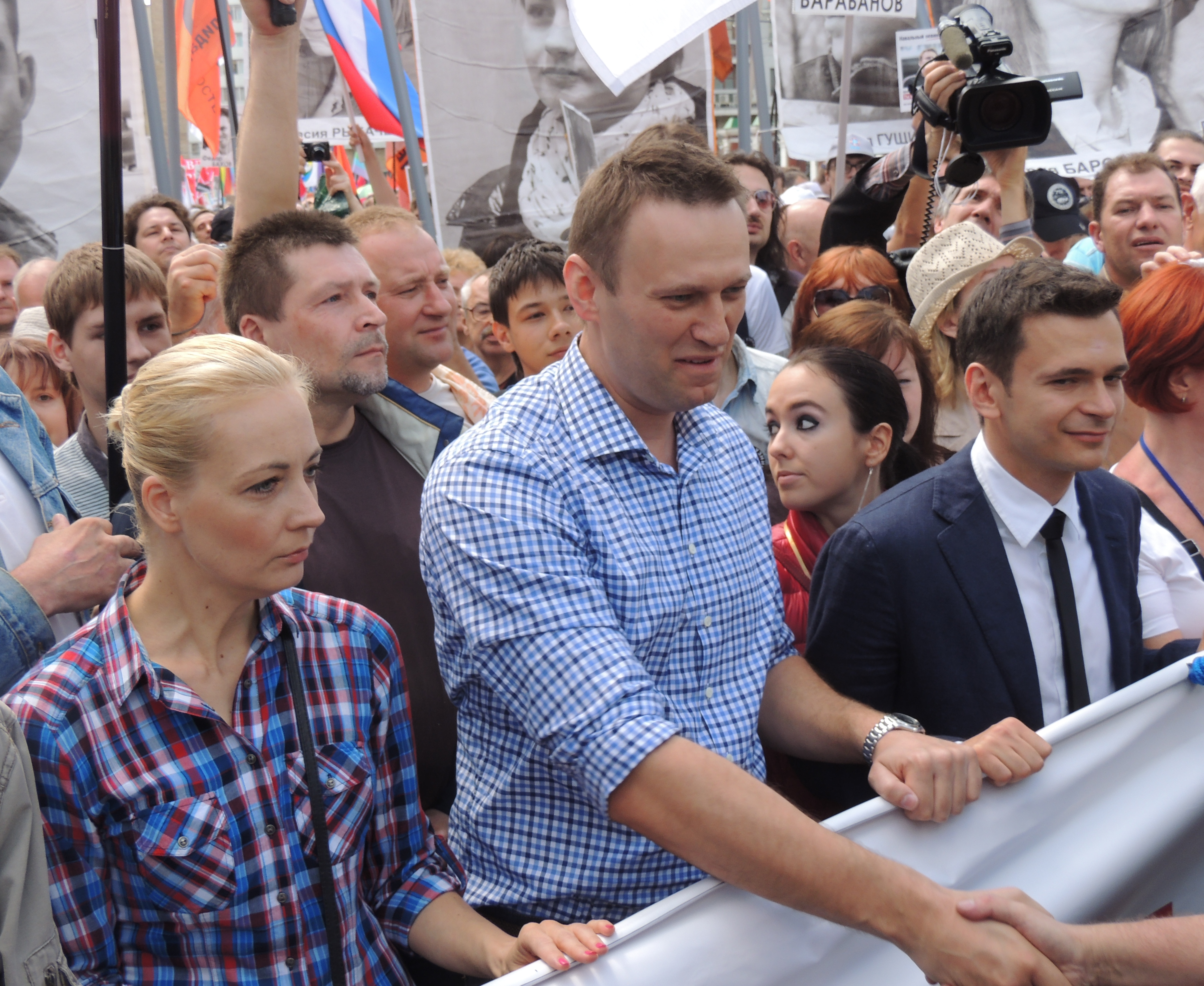 Yulia Navalny, Alexey Navalny and Ilya Yashin at Moscow rally 2013-06-12